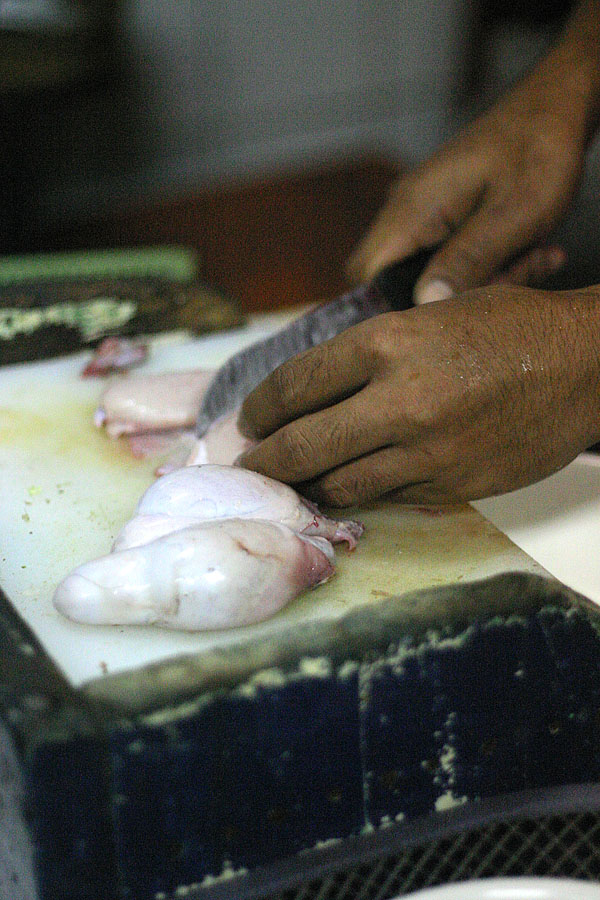 Goat testicles (sweetmeat) are being prepared for satay in a restaurant in Jakarta.